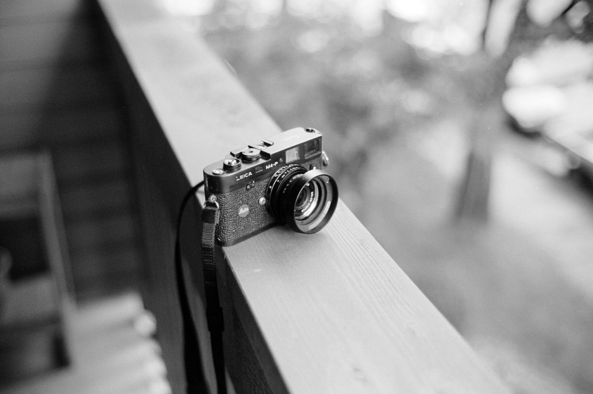 Efke 50 test roll. Shot at f/2.